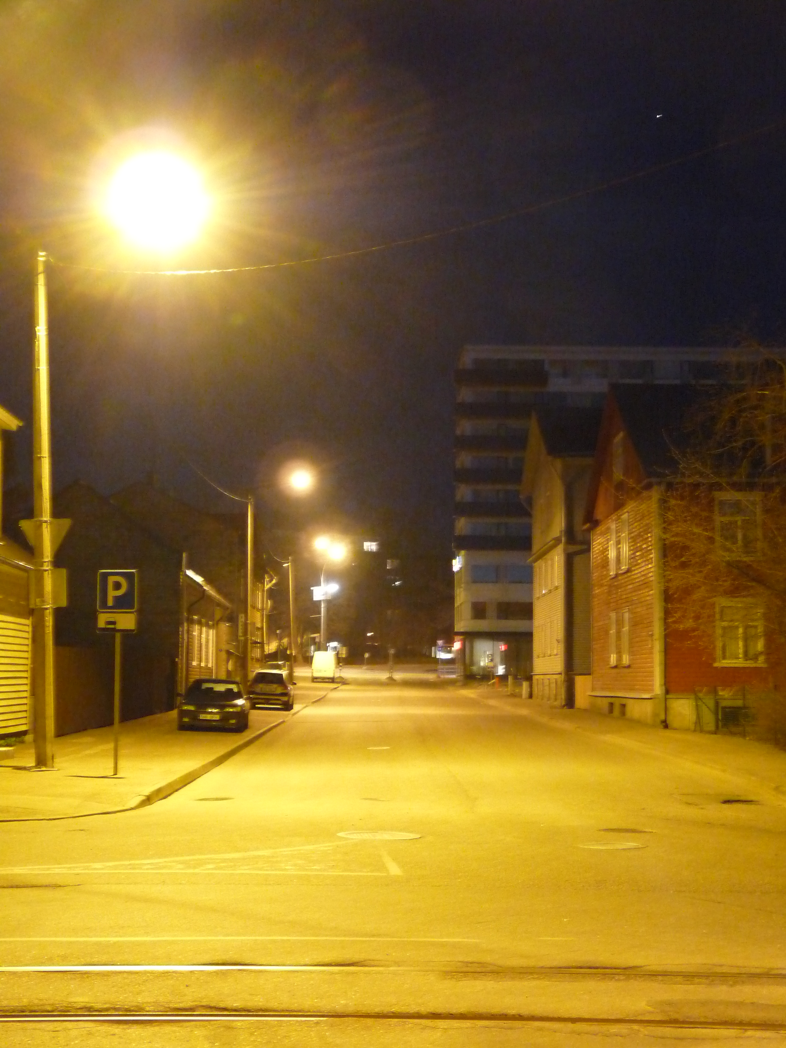 Alevi street in Tallinn, Estonia